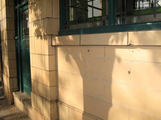 Bullet holes in the wall of the Magdala Tavern. On Easter Sunday 1955, Ruth Ellis, a hostess in a Soho nightclub, shot and killed her lover, racing car driver David Blakely, outside the Magdala Tavern: 1057153 and 1057156. Some of the bullet holes are shown in the photo. Ruth Ellis was the last woman to be executed in the UK - she was hanged at Holloway Prison on 13th July 1955.